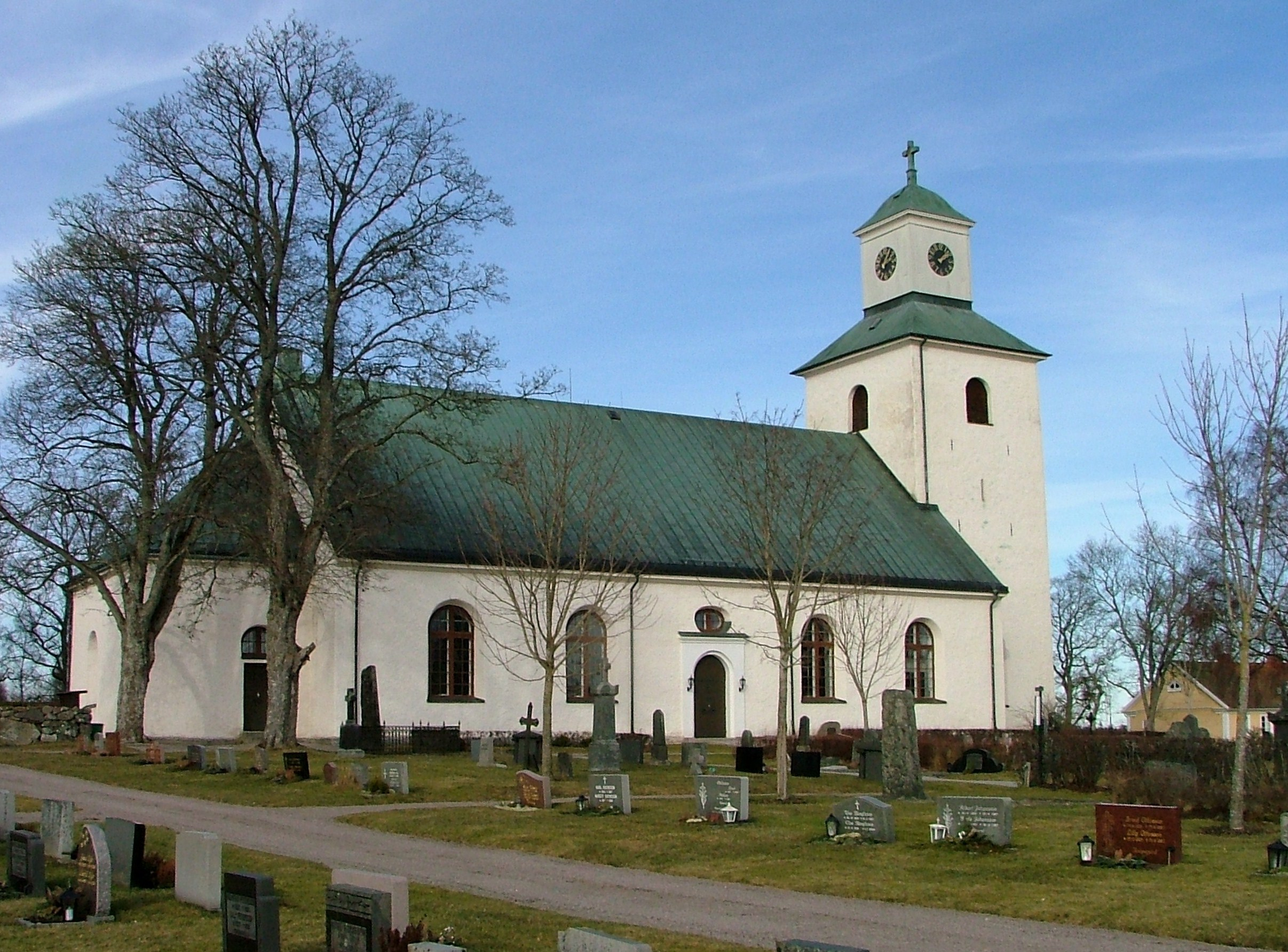 On August 6, 1827, the foundation stone was laid to the new church of Crown Prince Oscar who took a break in Väckelsång on his journey to Karlskrona. The neoclassicist church consists of rectangular long houses with a straightforward choir wall and an underlying sacristia. The main entrance is located in the ground floor of the tower. The entrance was sealed by Domprosten Isac Heurlin on June 11, 1832.